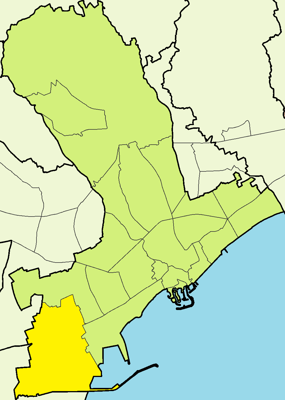 Zakaki in Limassol Municipality